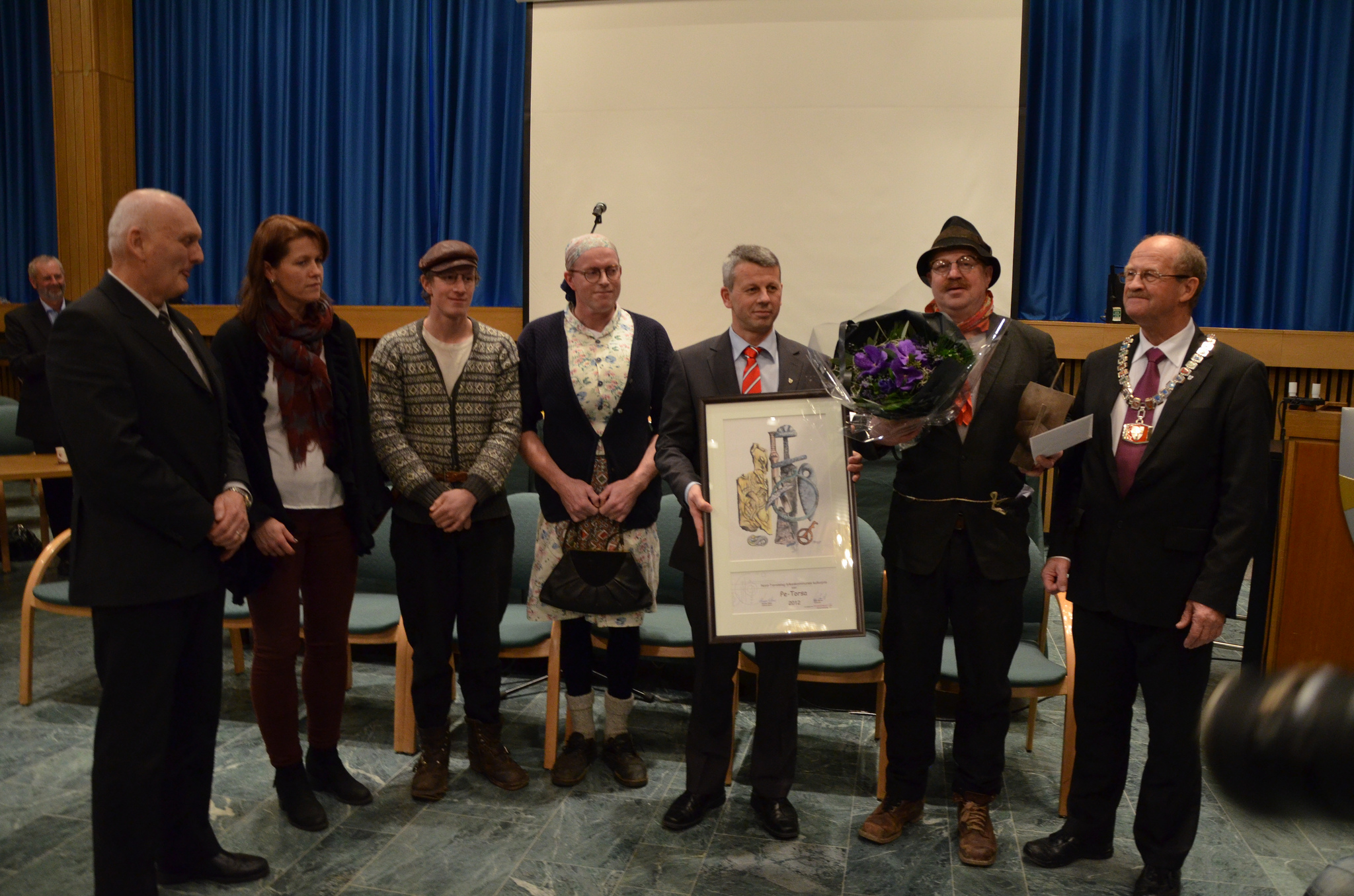 County mayor Gunnar Viken (right) and county council Terje Sørvik (with diploma) awarding the Nord-Trøndelag fylkes kulturpris 2012 to outdoor theatre Pe-Torsa